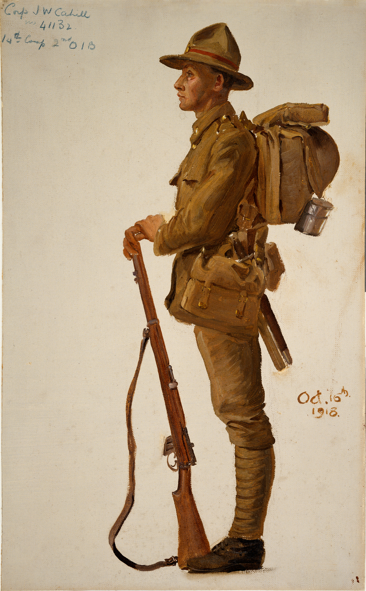 Full marching kit, Corporal J.W. Cahill ARTIST: George Edmund Butler MEDIUM/SUPPORT: Oils DIMENSIONS: 540 x 340mm Dated 16 October 1918 Archives New Zealand Reference: AAAC 898 NCWA 496